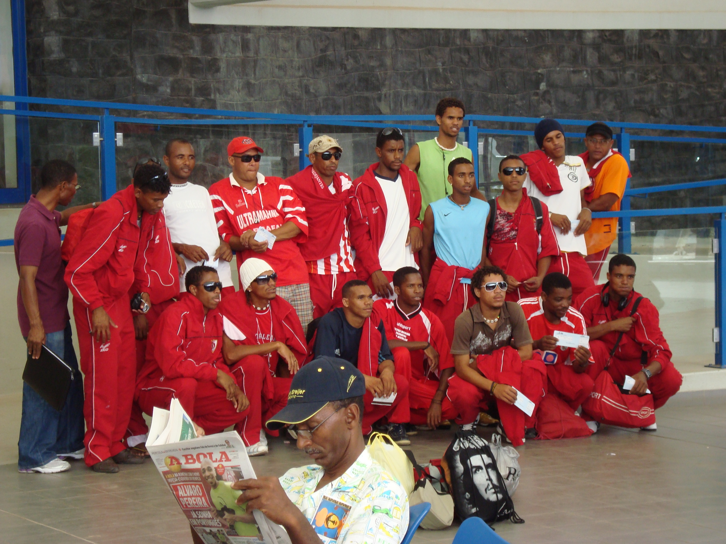 I was waiting for my flight at Praia airport in Cape Verde, when suddenly I saw this team posing. I couldn't resist taking a picture.